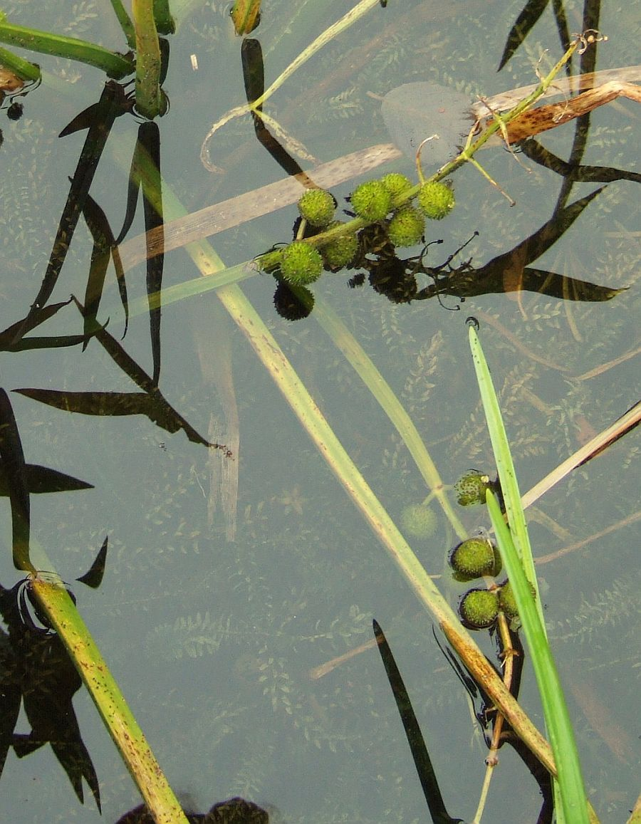 Sagittaria sagittifolia